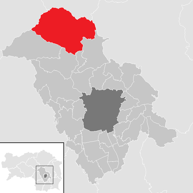 District Graz-Umgebung, Styria